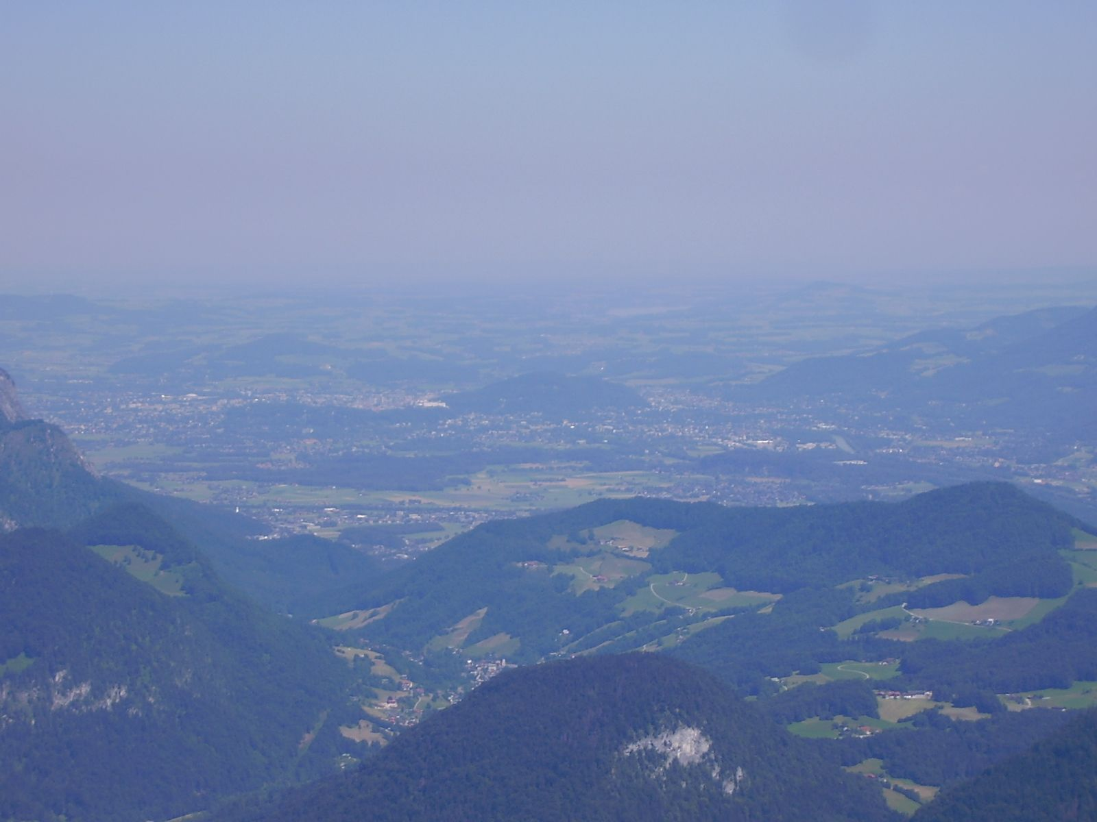 Panorama from Kehlsteinhaus direction north (Salzburg)